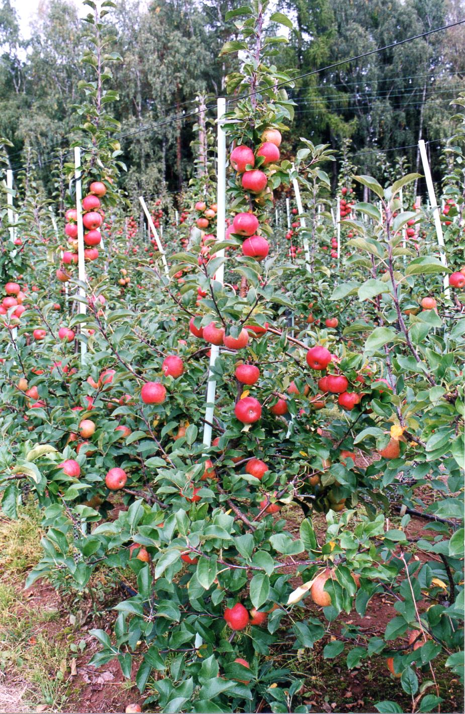 Apple tree of Topaz cultivar